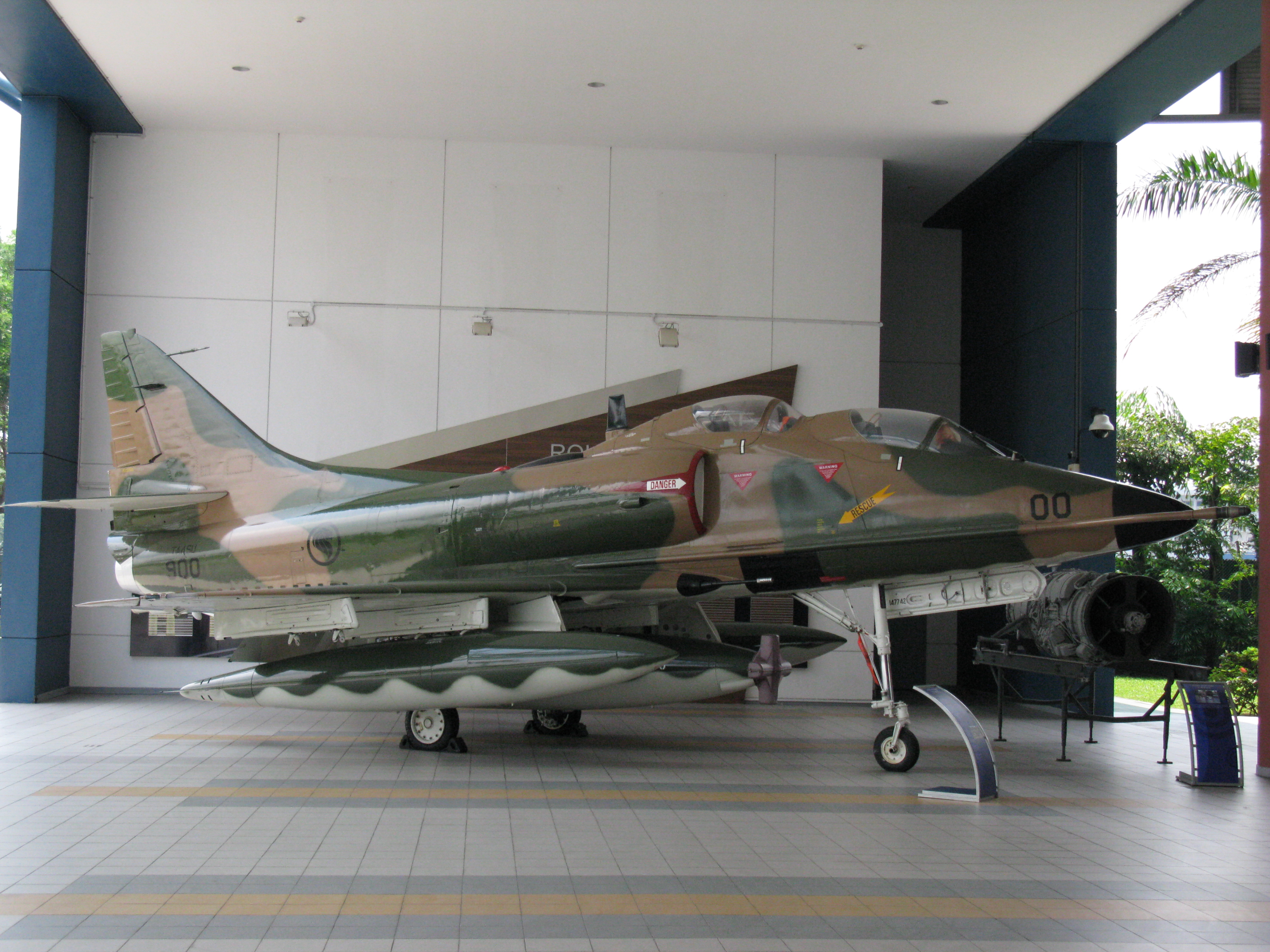 USN Bu. No. 147742 cn-12506, a retired Singapore TA-4SU 900. Photo taken at Republic of Singapore Air Force Museum, Paya Lebar Air Base.